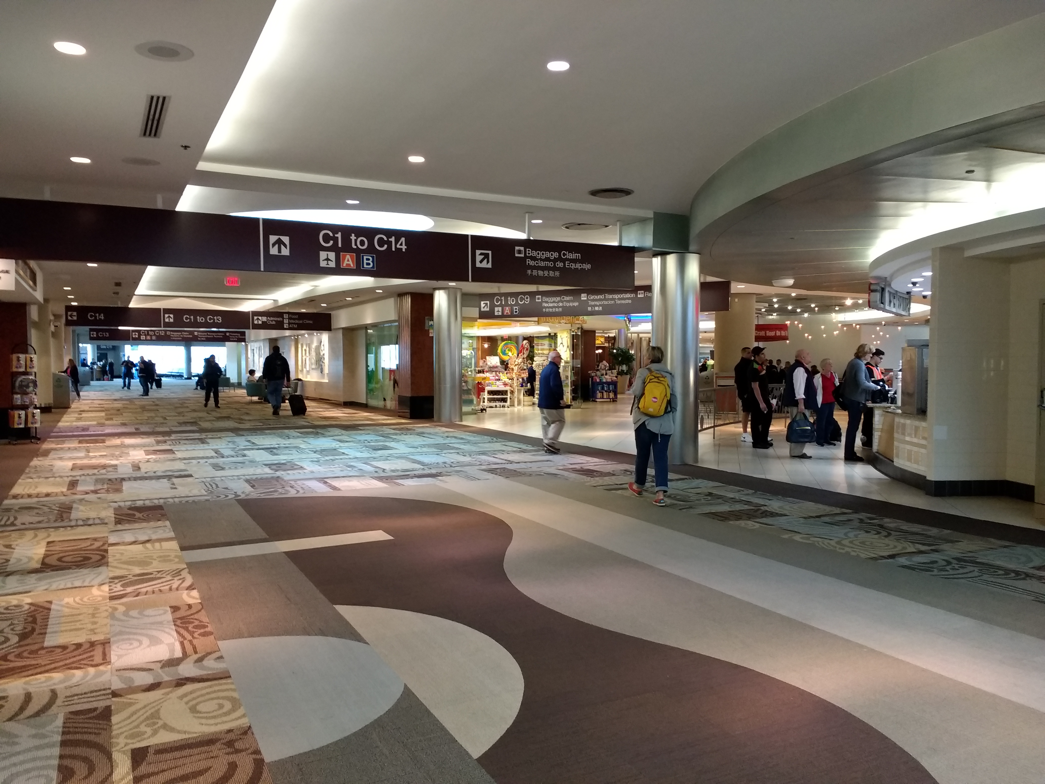 Interior of Concourse C at Nashville International Airport.